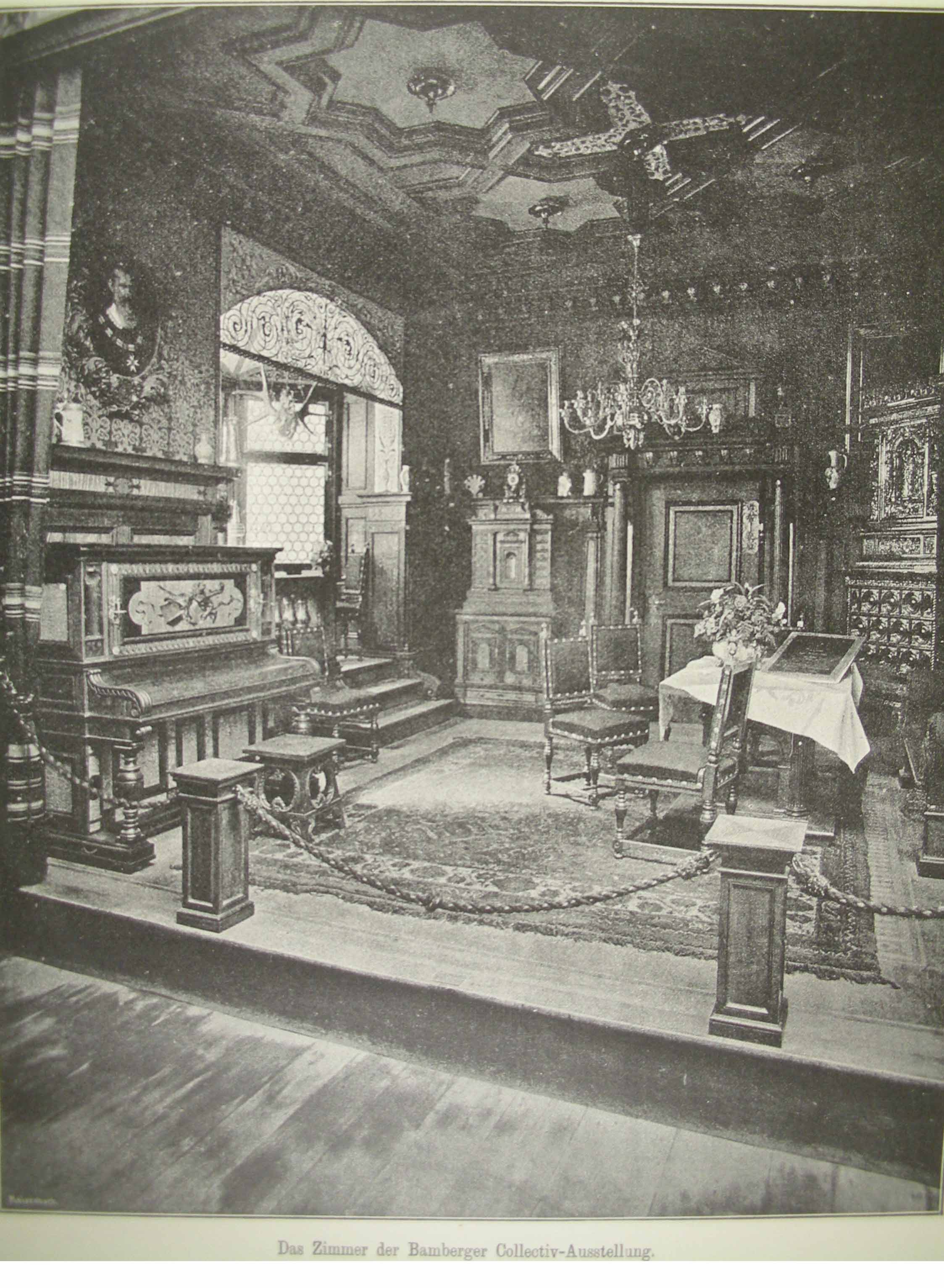 Das von der Deutschen Nationalen Kunstgewerbeausstellung in München 1888 prämierte Renaissancezimmer (Bamberger Zimmer) des Architekten Leonhard Romeis im Gebäude Schützenstraße 1 (und Friedrichstraße 2) in Bamberg.